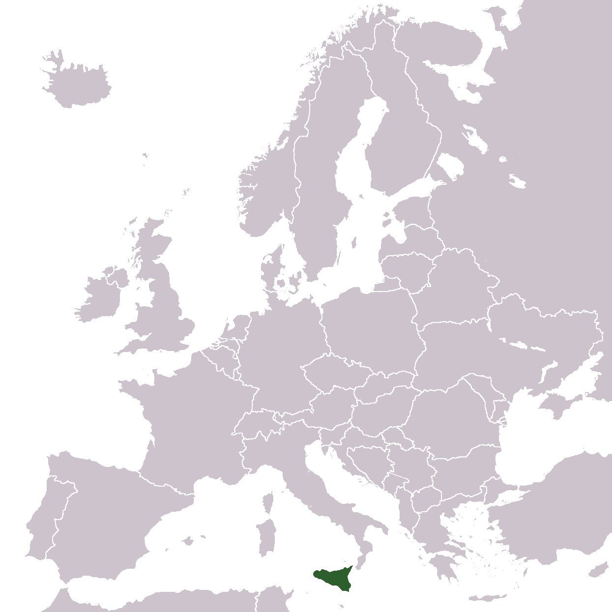 Location map for Sicily (Sicilia), based on Europe location F.png, with Montenegro added.